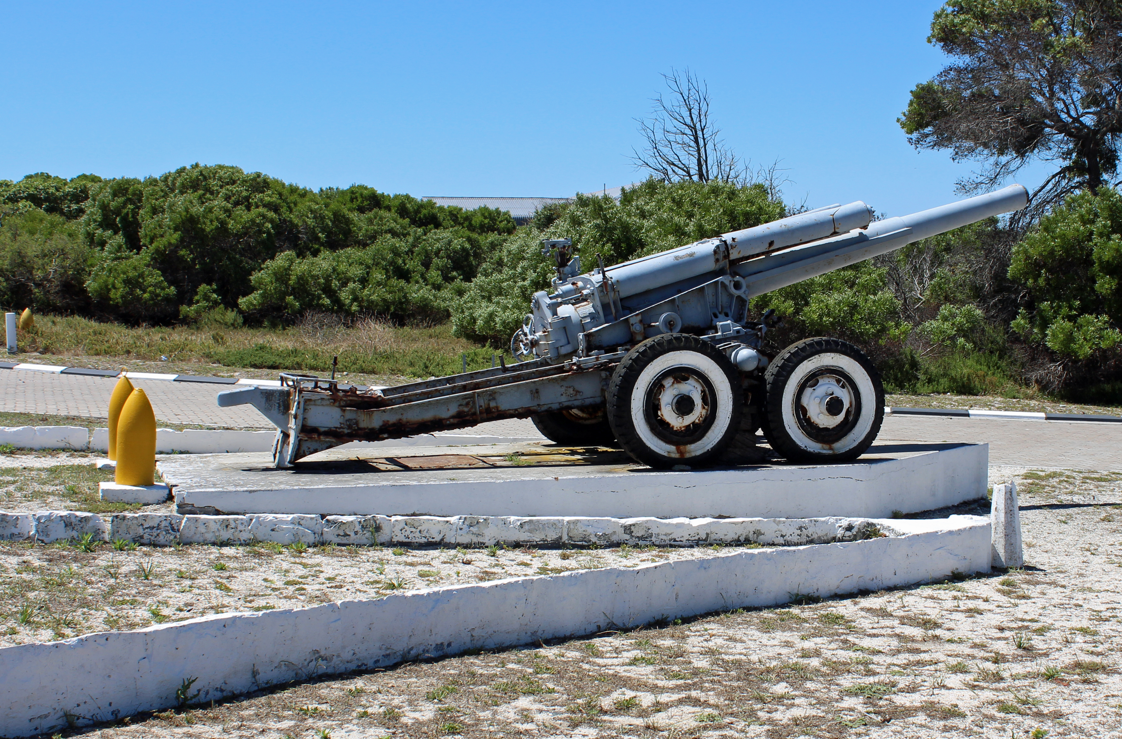 Cannon on display between the Robben Island prison buildings and Murray's Bay Harbour. 9.2 inch and 6 inch calibre shells serve as landscape features around the island.